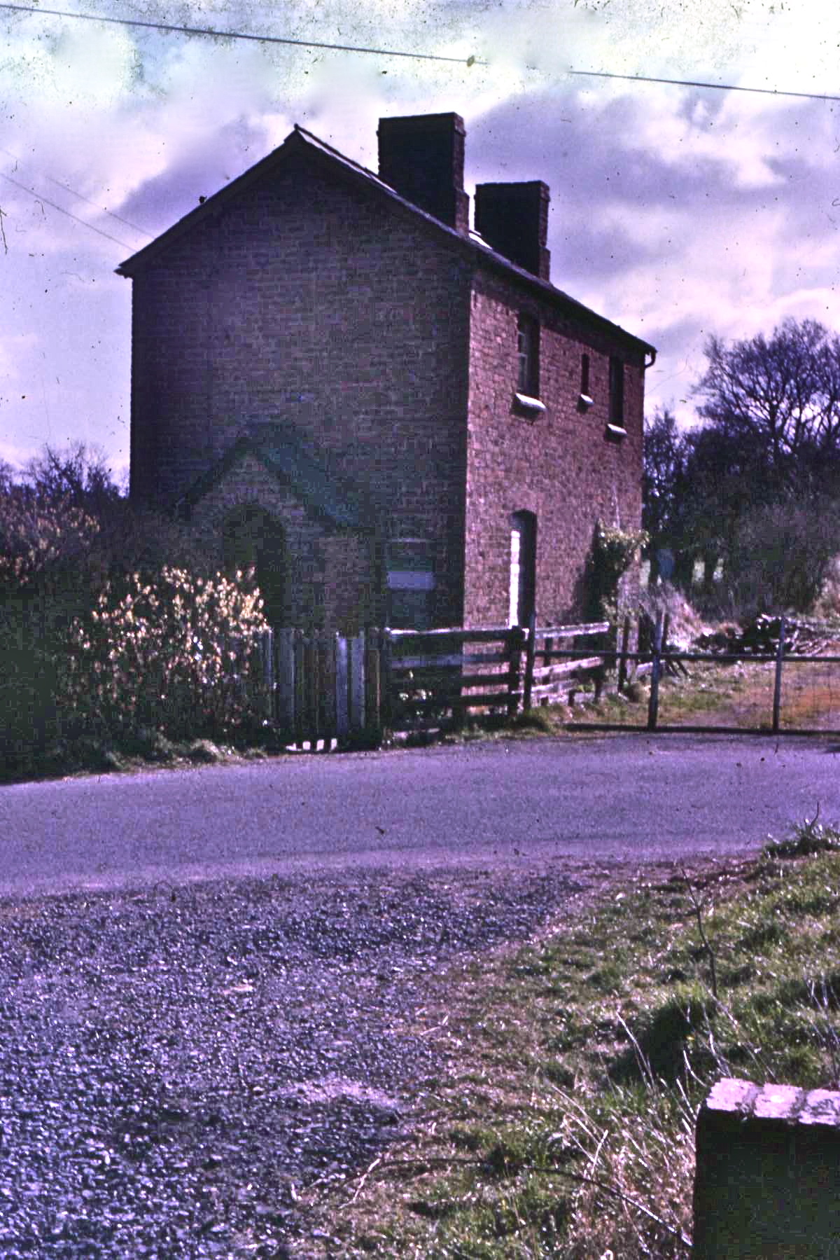 Seven years after closure